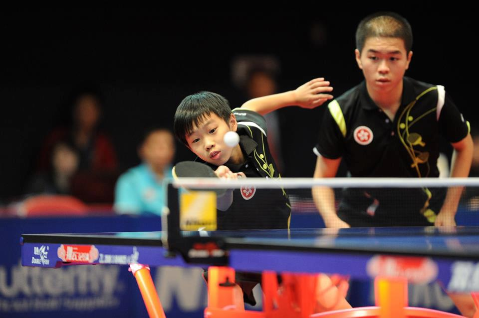 2012 Ittf Hong Kong Cadet Open Doubles Semi Final